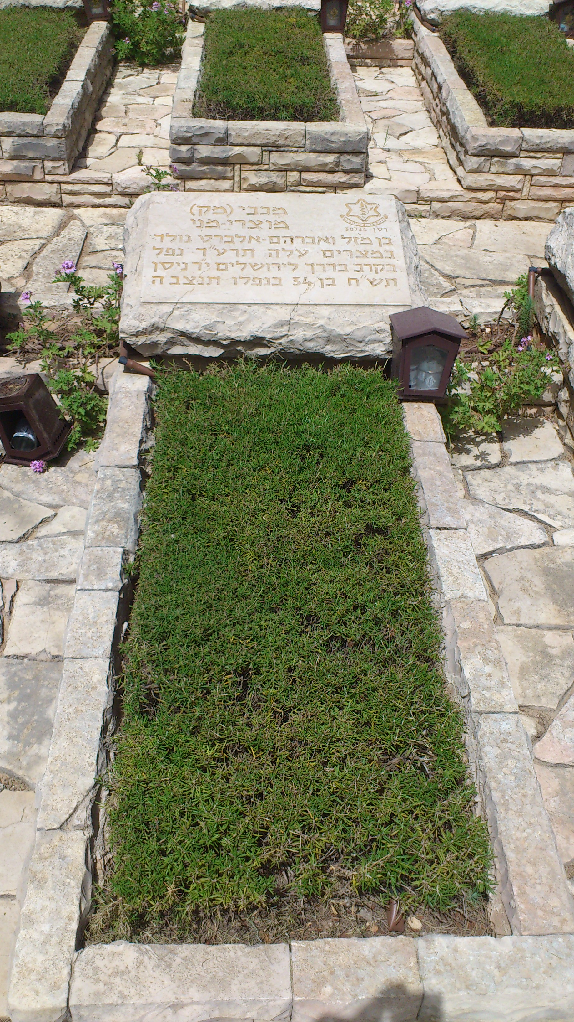 Maccabi Mutzery-Mani